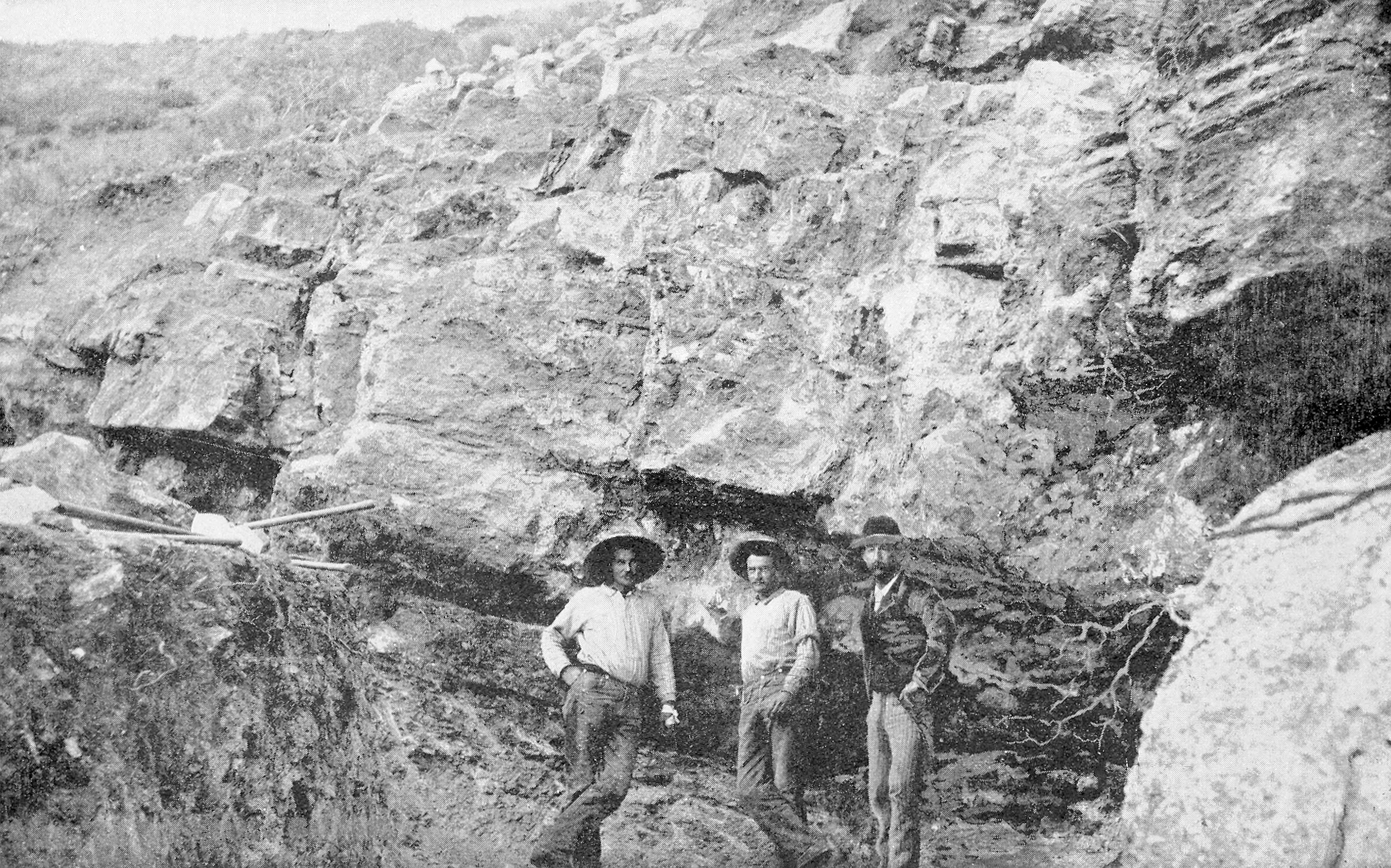 Cave Creek, Arizona. Title: Annual report of the Board of Regents of the Smithsonian Institution Year: 1846 (1840s) Authors: Smithsonian Institution. Board of Regents; United States National Museum. Report of the U. S. National Museum; Smithsonian Institution. Report of the Secretary Subjects: Smithsonian Institution; Smithsonian Institution. Archives; Discoveries in science Publisher: Washington : Smithsonian Institution Text Appearing Before Image: Report of National Museum, 1 893.—Merrill. Plate 10. # ""'^^■f' Text Appearing After Image: o a